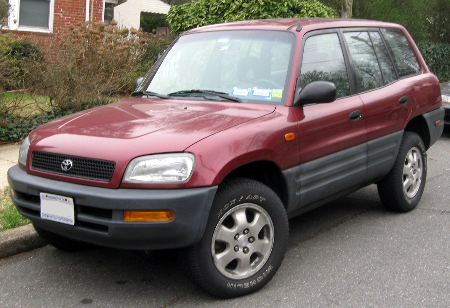 1996-1997 Toyota RAV4 photographed in Washington, D.C., USA.